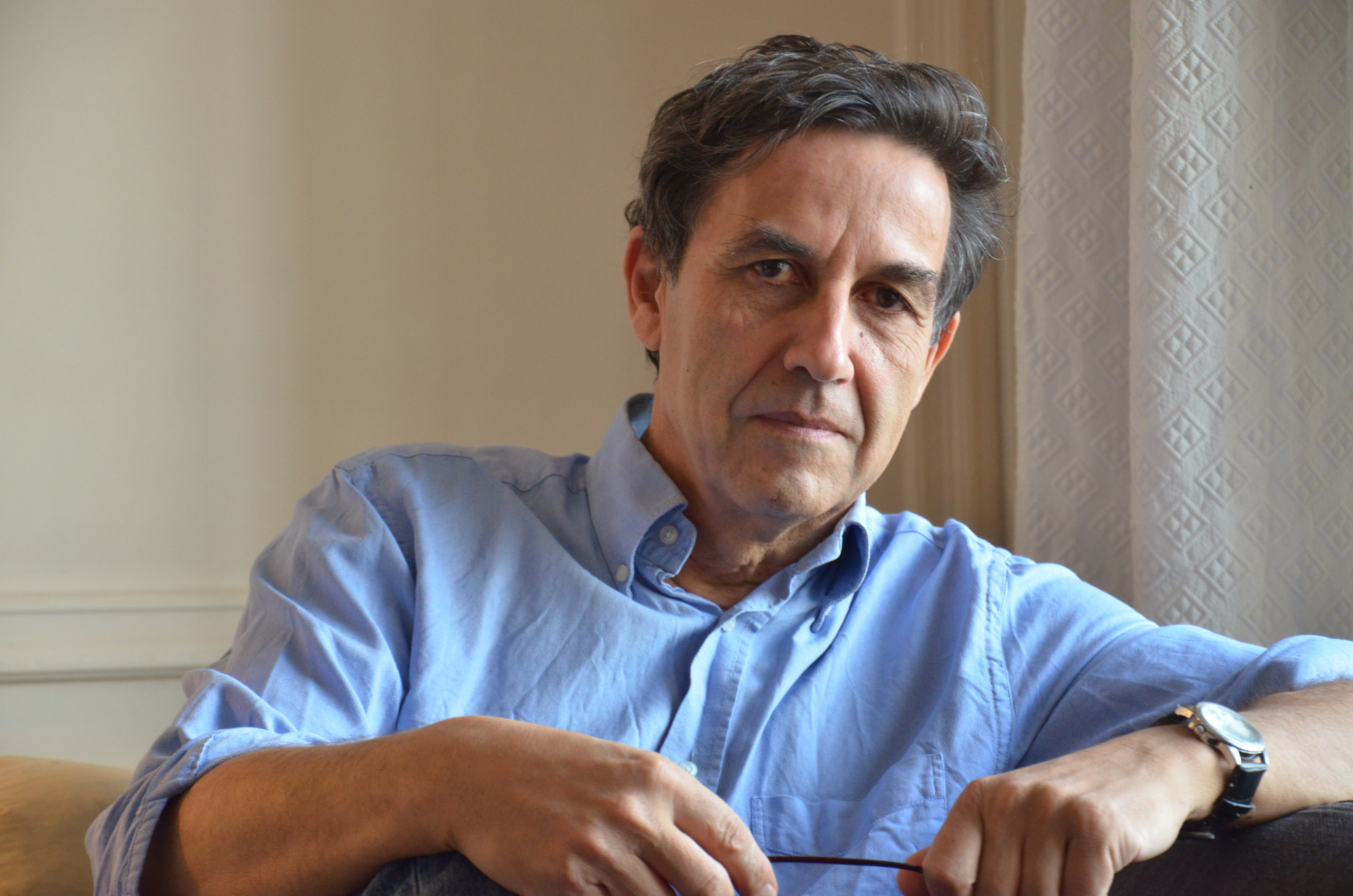 Emmanuel Todd 11 2014